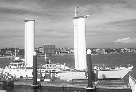 Picture of the Alcyone. This ship is sailing for the J.Cousteau Society. 2006 Dr. Wessmann